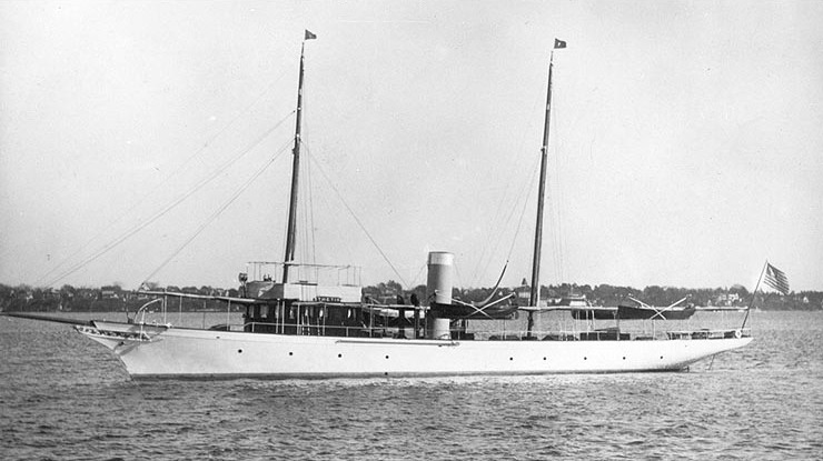 The yacht Thetis, prior to her service as the United States Navy patrol vessel.